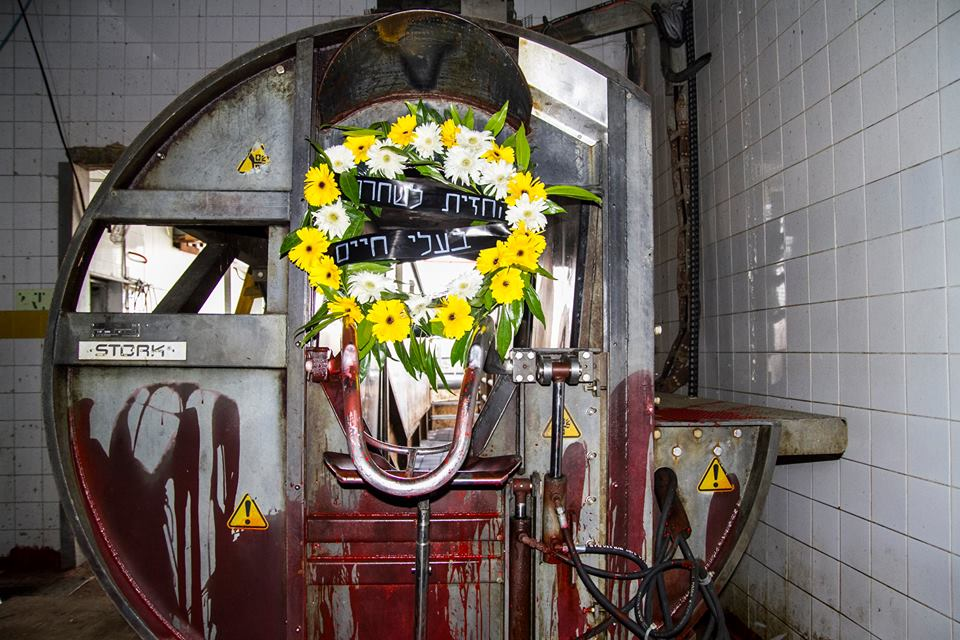 Animal Liberation Front in Israel broke in Haifa, they put stickers "Thou Shell Not Kill on the walls, and put wreath on the slaughter chamber